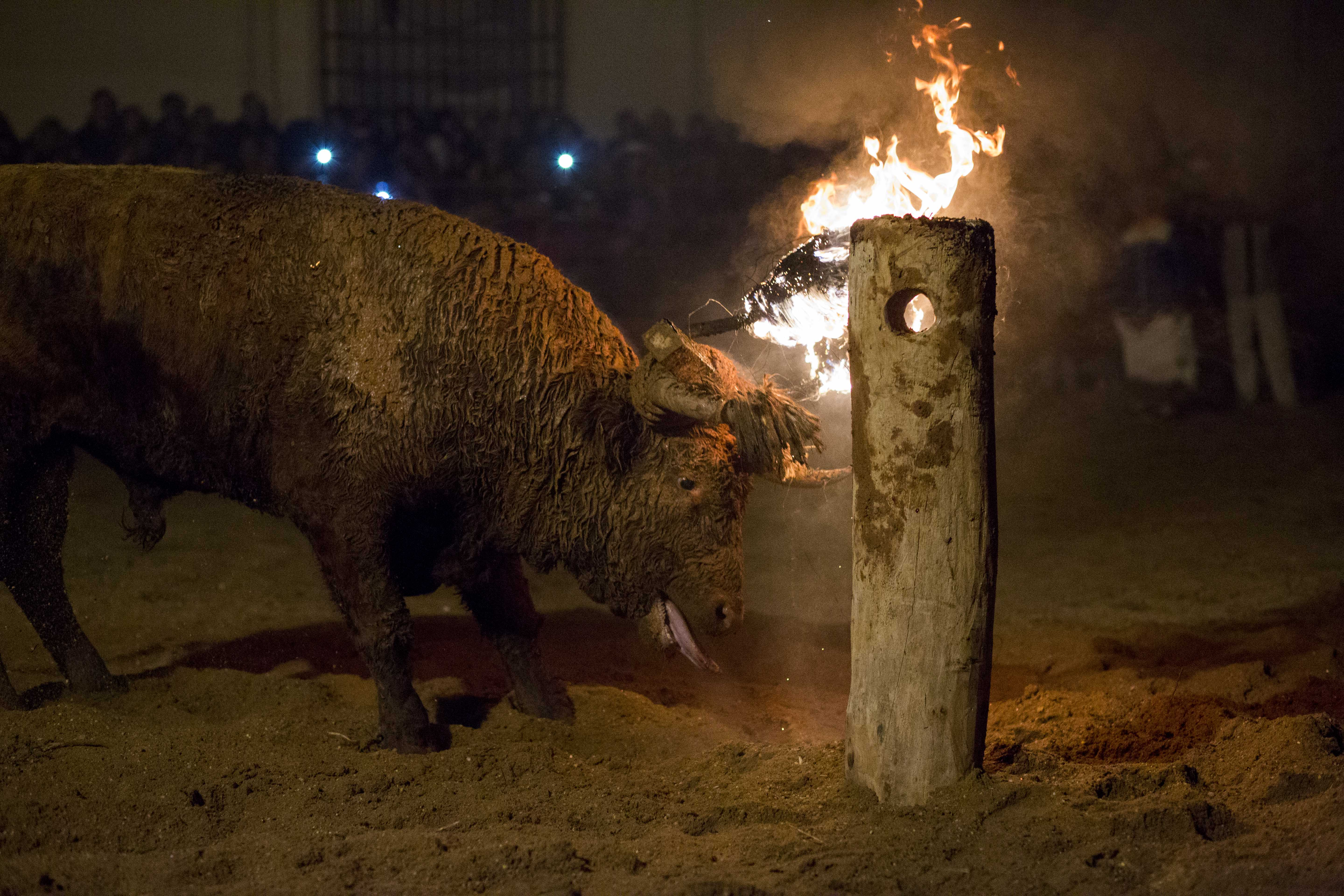 ¿Como una sociedad mentalmente sana puede consentir esta barbaridad a un animal? ¿Como la chusma política que nos gobierna en España puede alentar y consentir este maltrato? ¿Por qué el resto de partidos políticos, con representación y poder no dicen nada sobre los toros con fuego? How a mentally healthy society can allow this atrocity against an animal ? How the political rabble that governs us in Spain consent and encourage this abuse ? Why do the other political parties, with representation and power, say nothing about the burning bulls?